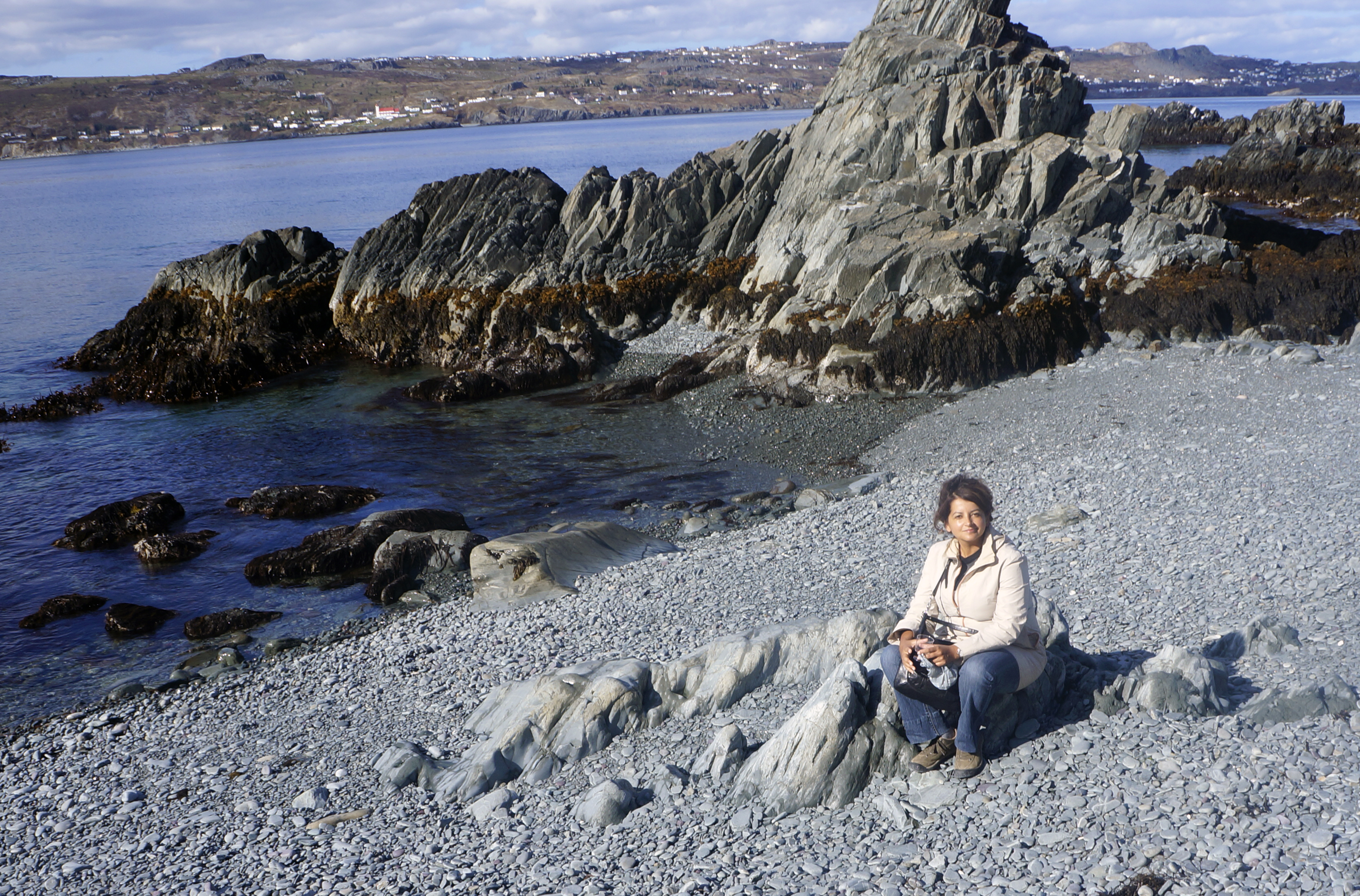 Traditional Mussel Boil at the Three Sisters Music and Story Telling Sponsored by Ruth Brown, Exit Reality on the Rock. Door prizes by Phylis Russell of Klondyke Cottage and Carolyn Drover of Legrow's Travel Shoreline Heritage Walking Trail Bay Roberts, Newfoundland and Labrador